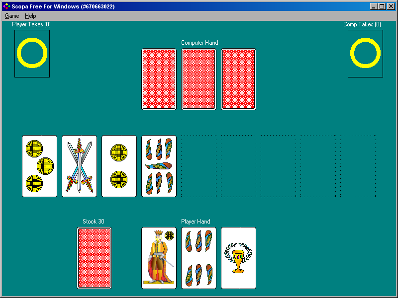 initial setting of Scopa card game